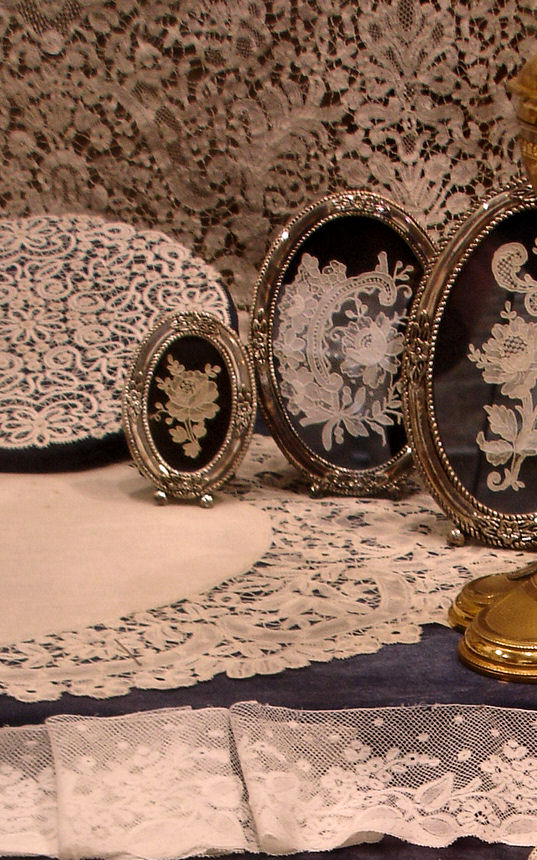 An example of old valuable framed lace for commercial use in Brugge